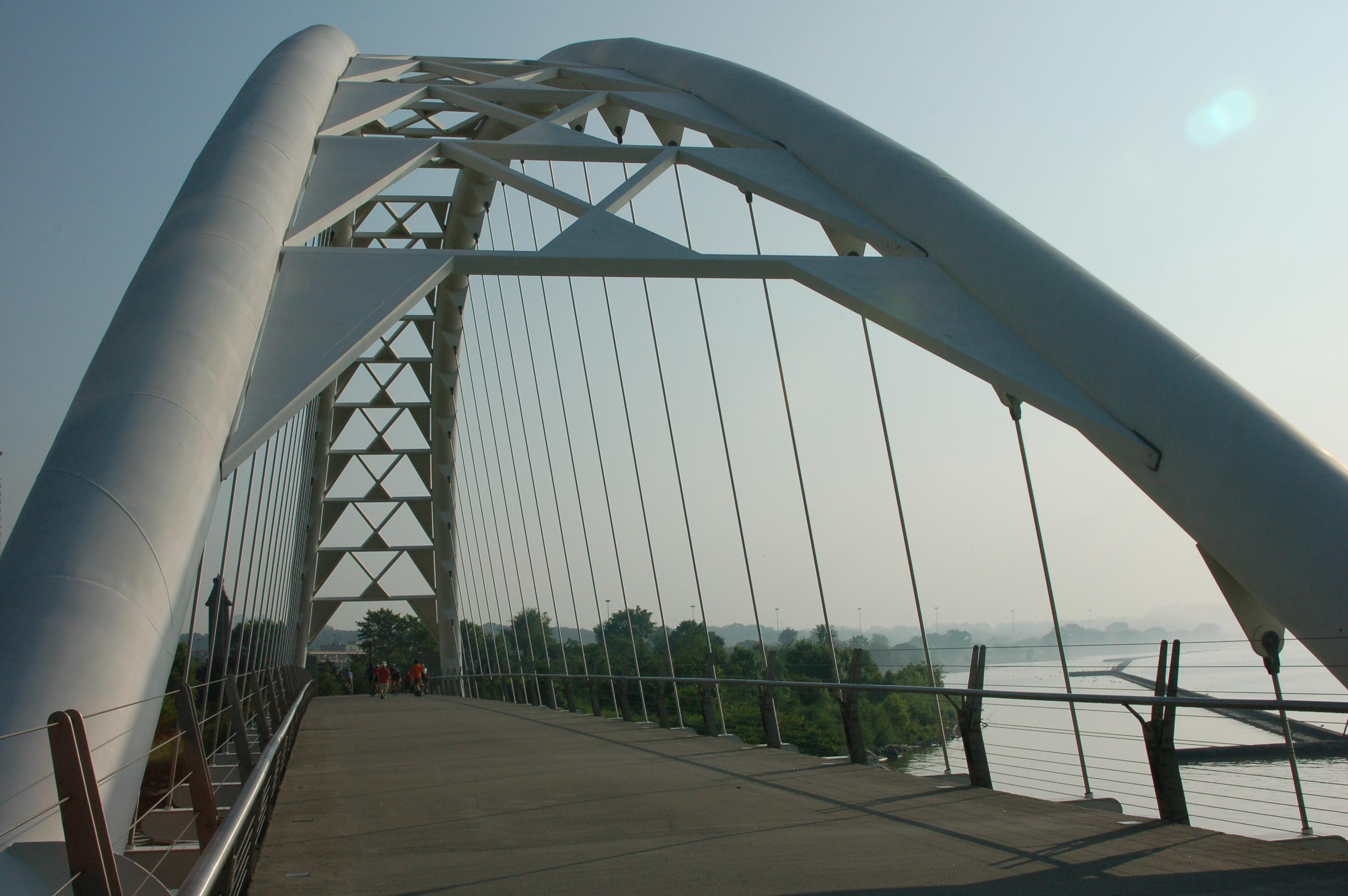 The Arch Bridge over the Bay of the Humber River where it enters Lake Ontario. Photographed by Sandra McKeown.